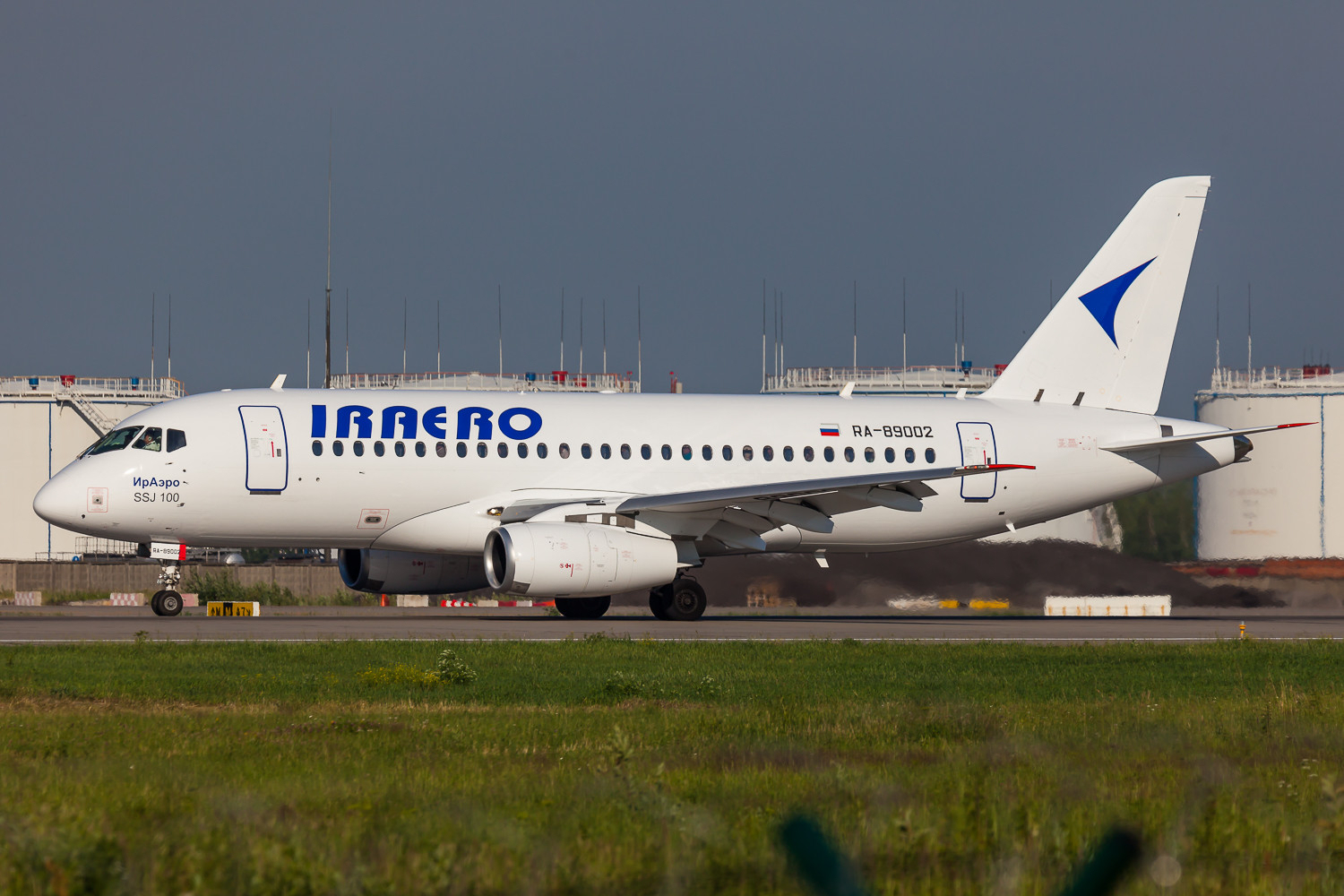 IrAero Sukhoi Superjet 100-95 (RA-89002) at Domodedovo Airport